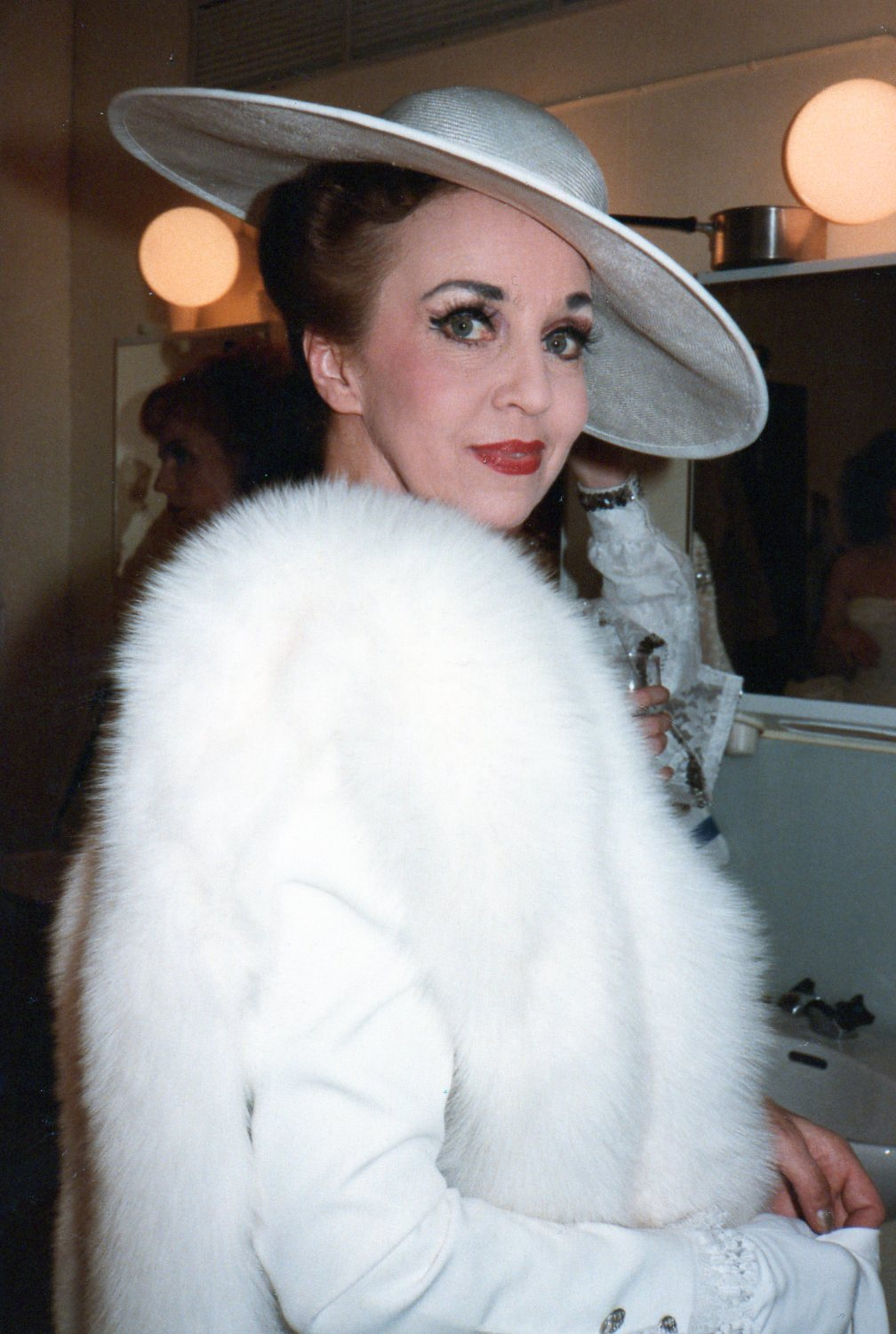 Helena Fernell (Stephanie) in the musical NINE, backstage